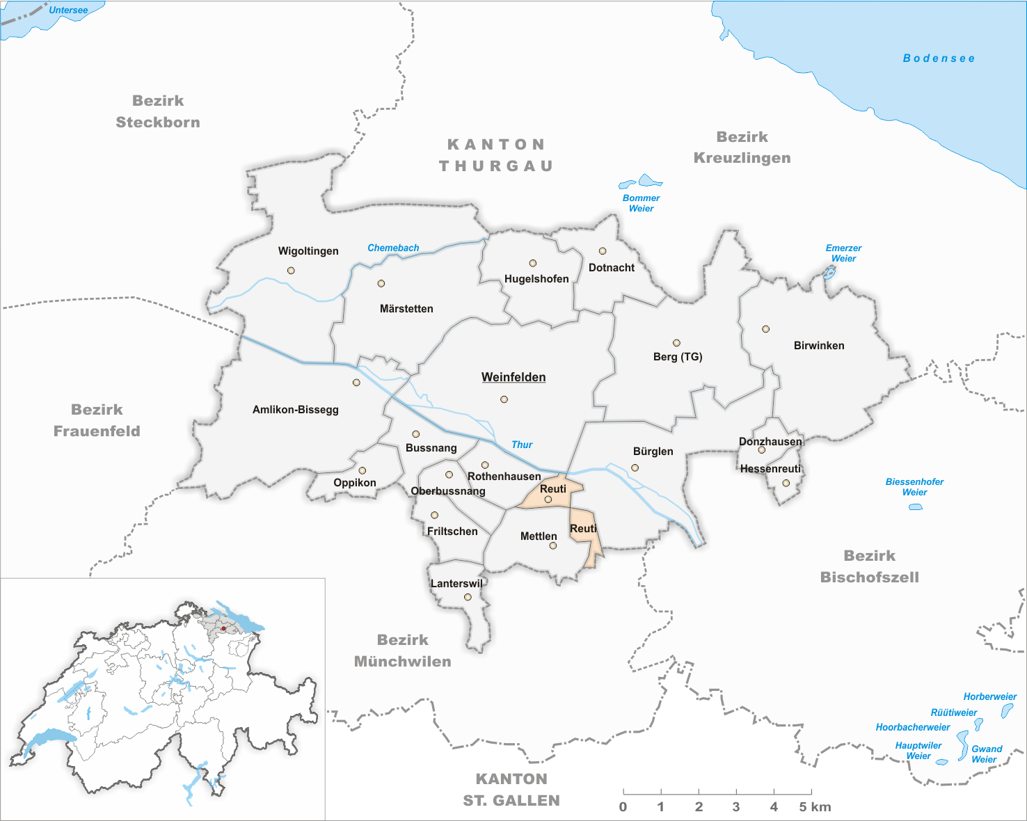 Municipality Reuti